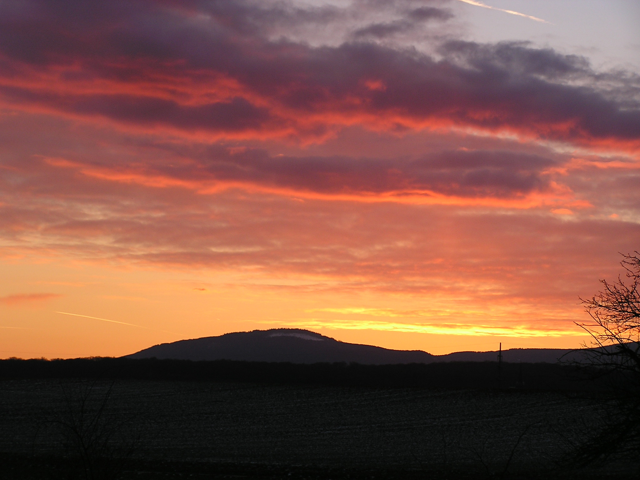 Sundown at the Altkoenig (Taunus)